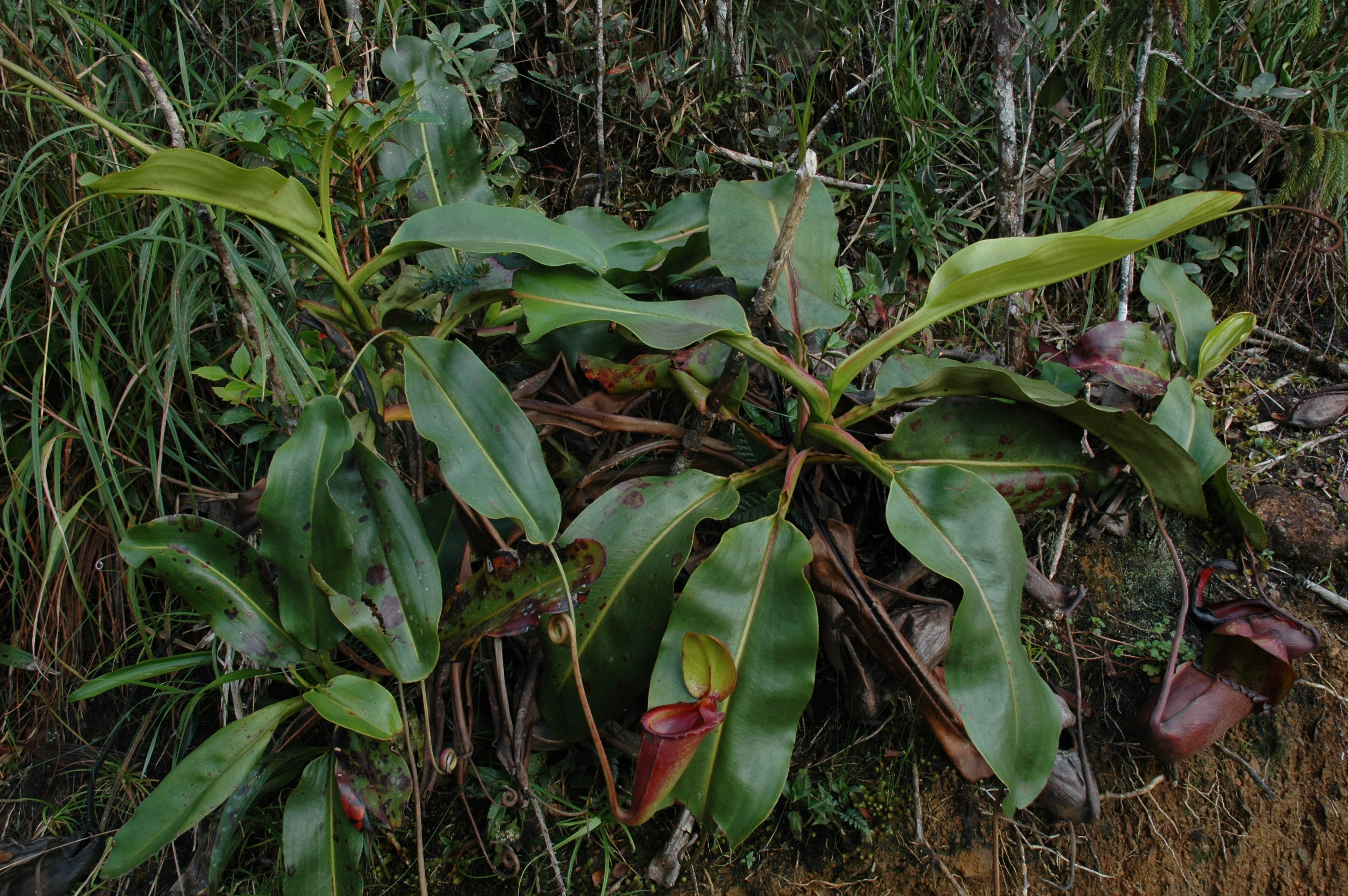 Nepenthes rajah plant with upper pitcher Kinabalu Mesilau by Jeremiah Harris